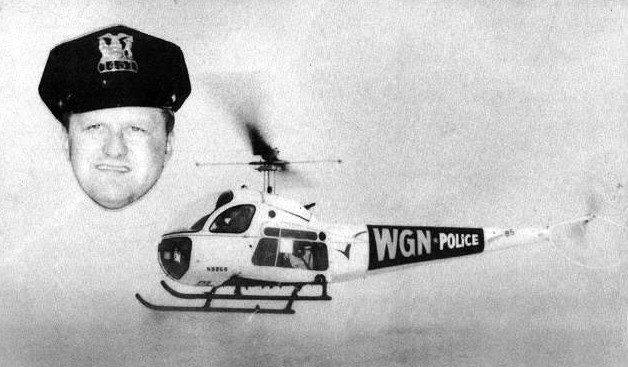 Photo of Chicago police officer Leonard Baldy and the WGN Radio traffic copter. WGN was a leader in using a helicopter to report traffic conditions. In 1960, Officer Baldy was killed in a helicopter crash while on duty for WGN.